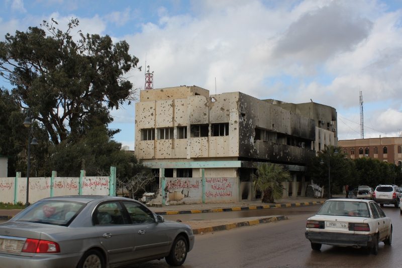 In the streets around the Katiba, buildings bore the signs of intense fighting. This local police station was hit by gunfire, first from protesters, then by loyalist soldiers after opposition forces took it over.